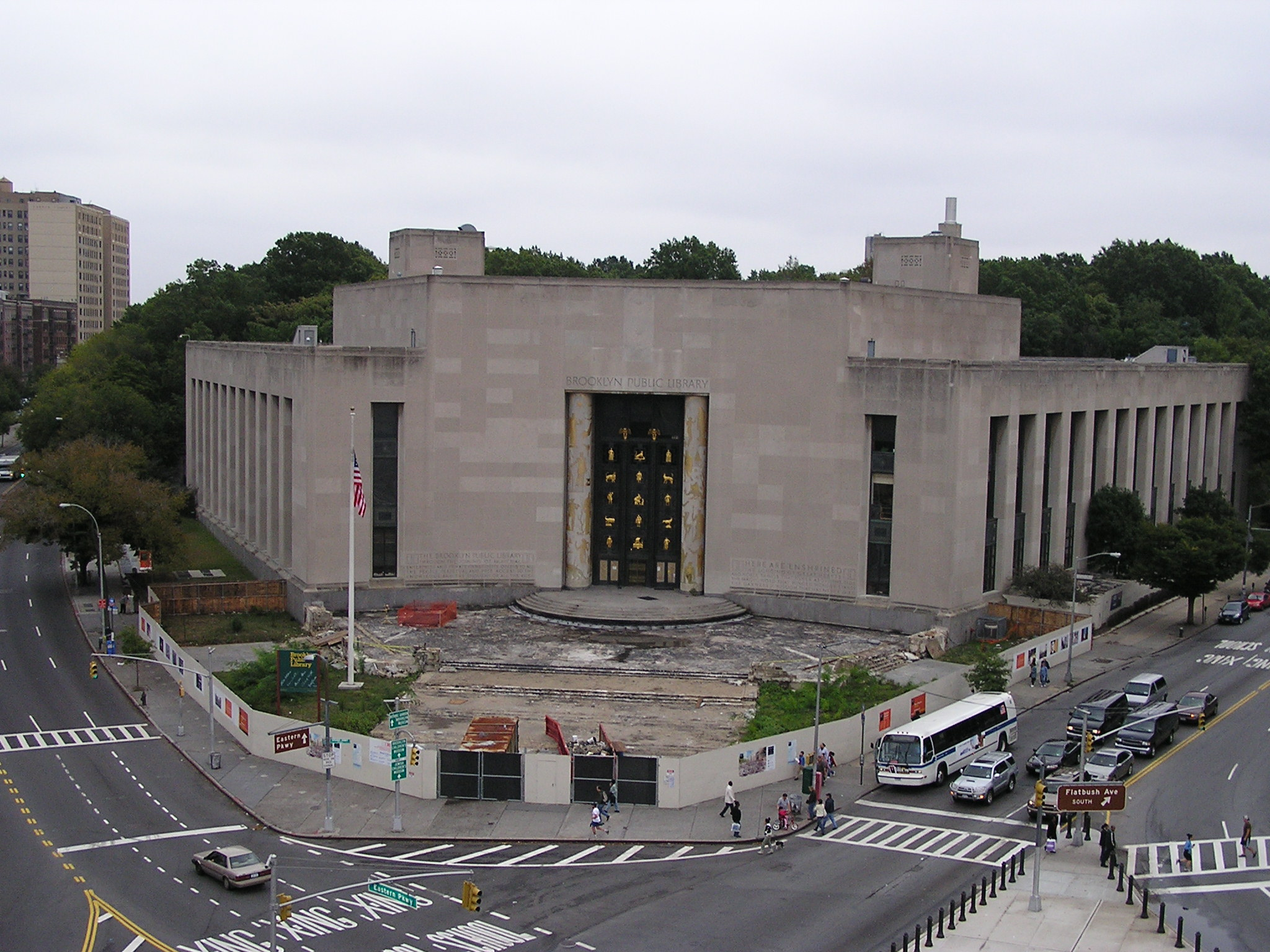 The central branch of the Brooklyn Public Library, taken from atop the Grand Army Plaza Soldiers' and Sailors' Monument Arch. At the time this was taken in October 2005, the entranceway was being excavated to create an underground performance space.